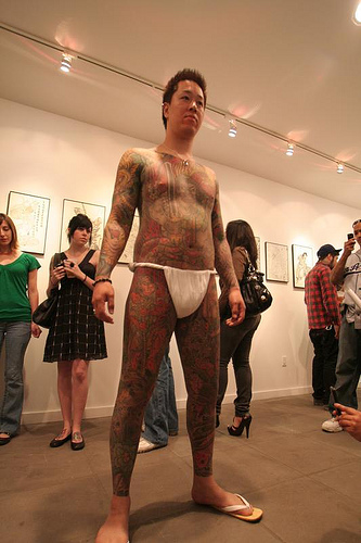 Horiyoshi III @ Canvas LA